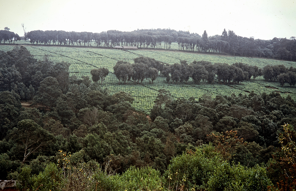 fields at Luponde